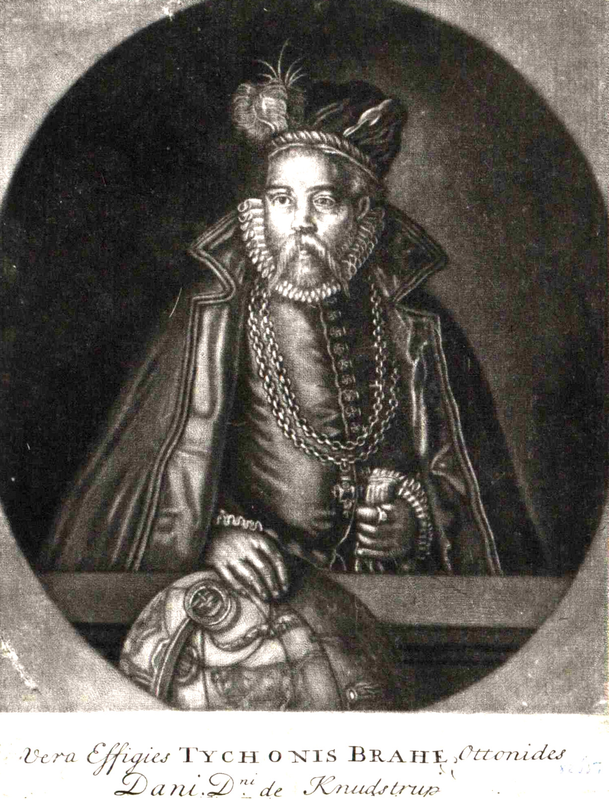 Brahe, Tycho (1546 - 1601)